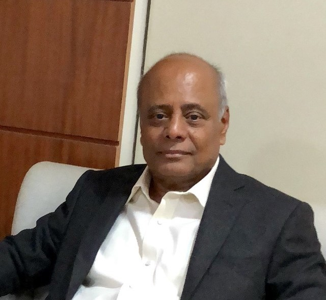 At 2019 charleston library conference